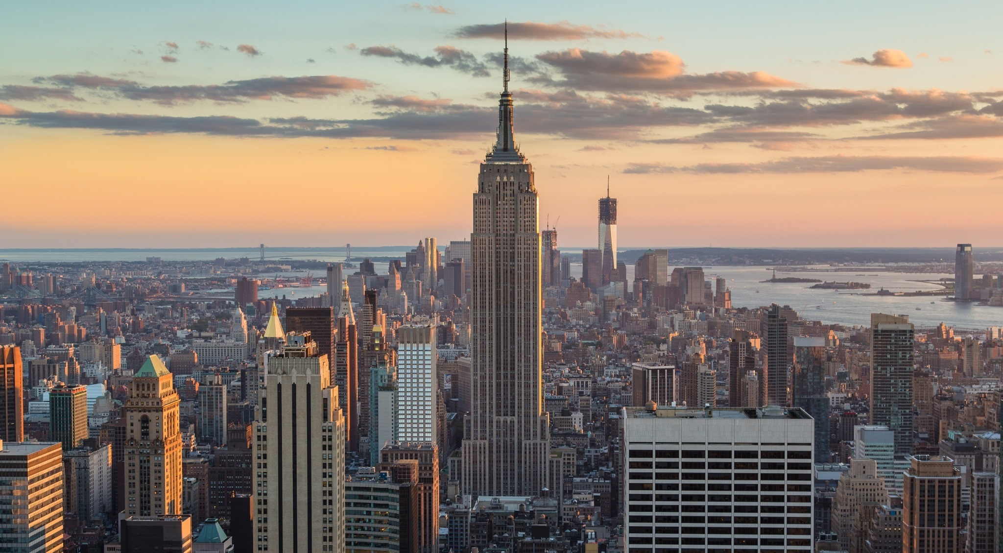 New York City